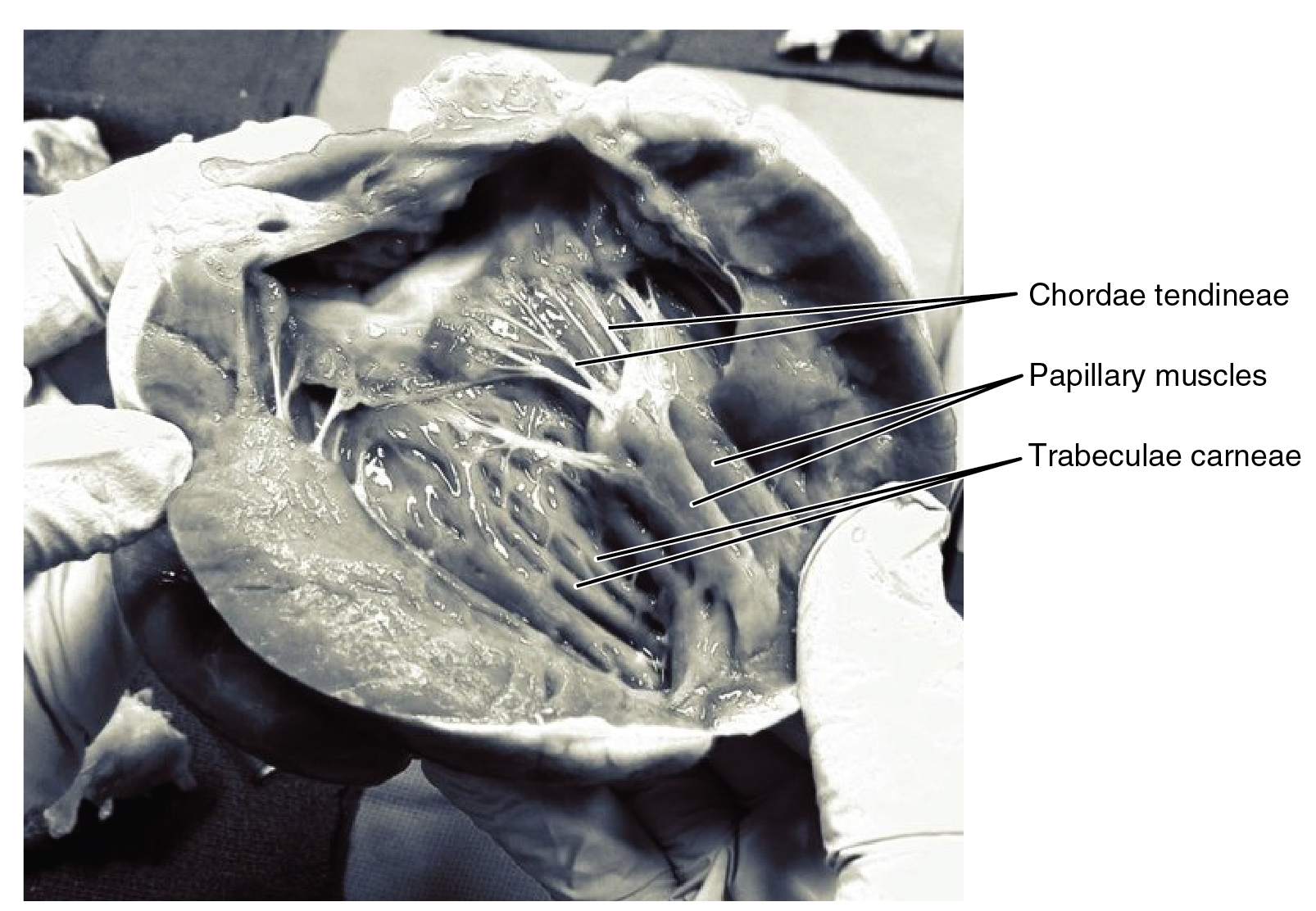 "In this frontal section, you can see papillary muscles attached to the tricuspid valve on the right as well as the mitral valve on the left via chordae tendineae. (credit: modification of work by “PV KS”/flickr.com)"Illustration from Anatomy & Physiology, Connexions Web site. Jun 19, 2013.